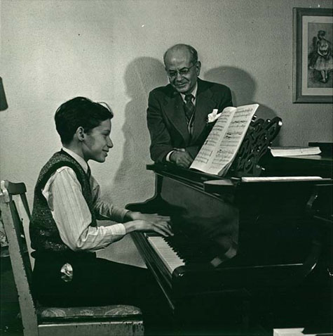 Alberto Guerrero (standing) with Glenn Gould, his most famous student, circa en:1945. Image Archives Canada